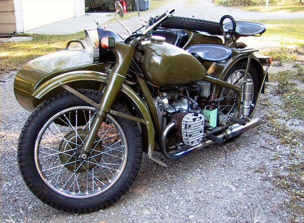 Photograph of Chang Jiang 750 M1 motorcycle.